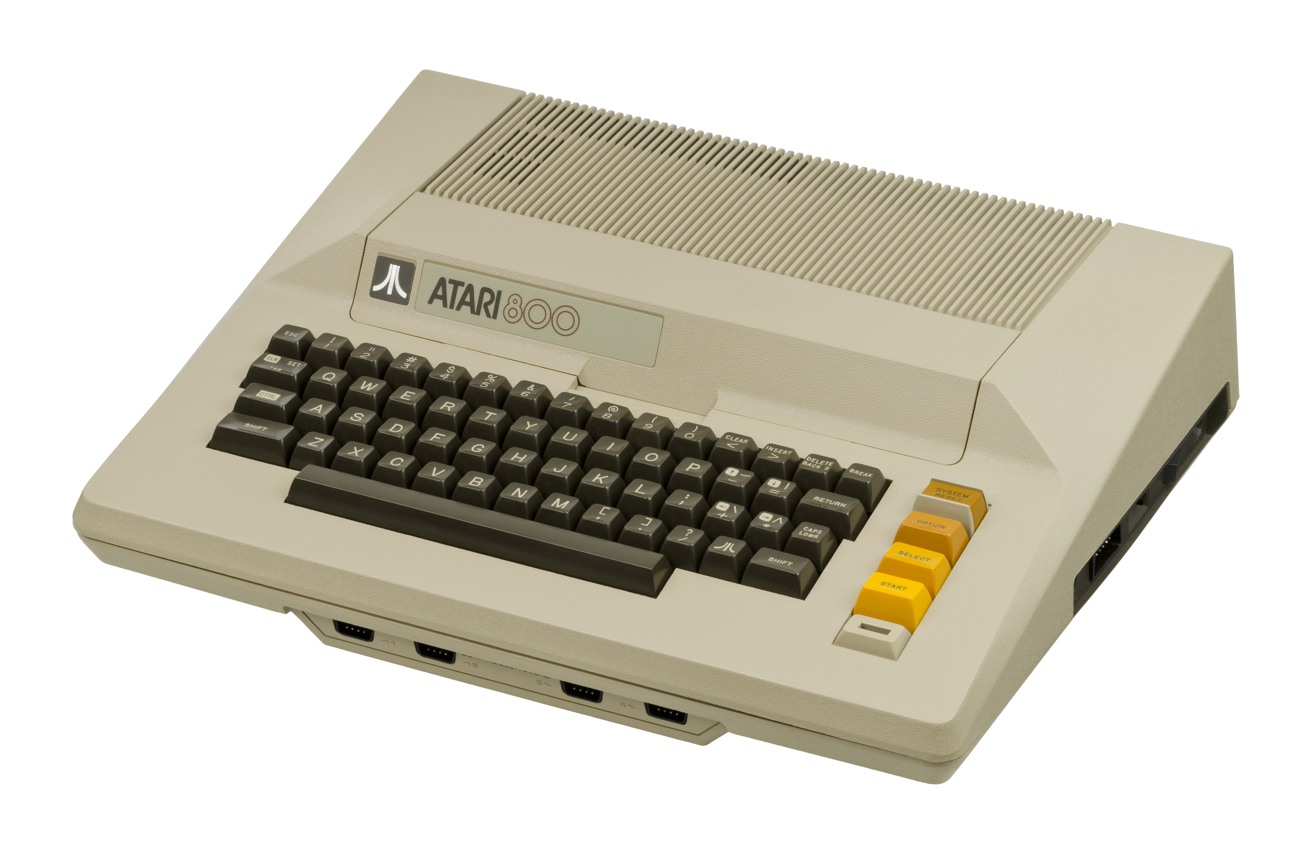 The Atari 800, an 8-bit computer released by Atari in 1979. Based off the MOS 6502 microprocessor and custom video and sound processors, the Atari 800 was the first in a line of popular home computers. Later models include the 600XL, 800XL 65XE and 130XE, which featured various amounts of memory and expansion capability.